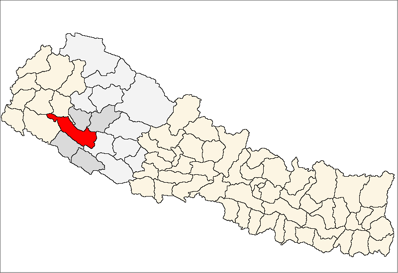 FrenchCarte de localisation dudistrict de Surkhet(wp-FR),au Népal (wp-FR).EnglishLocation map ofSurkhet District(wp-EN),in Nepal (wp-EN).